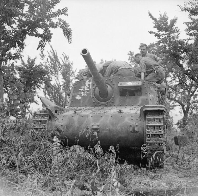 The British Army in Italy 1944 An Italian Semovente self-propelled gun captured by troops of 78th Infantry Division, whose battleaxe badge has been painted on the front plate, 19 May 1944.